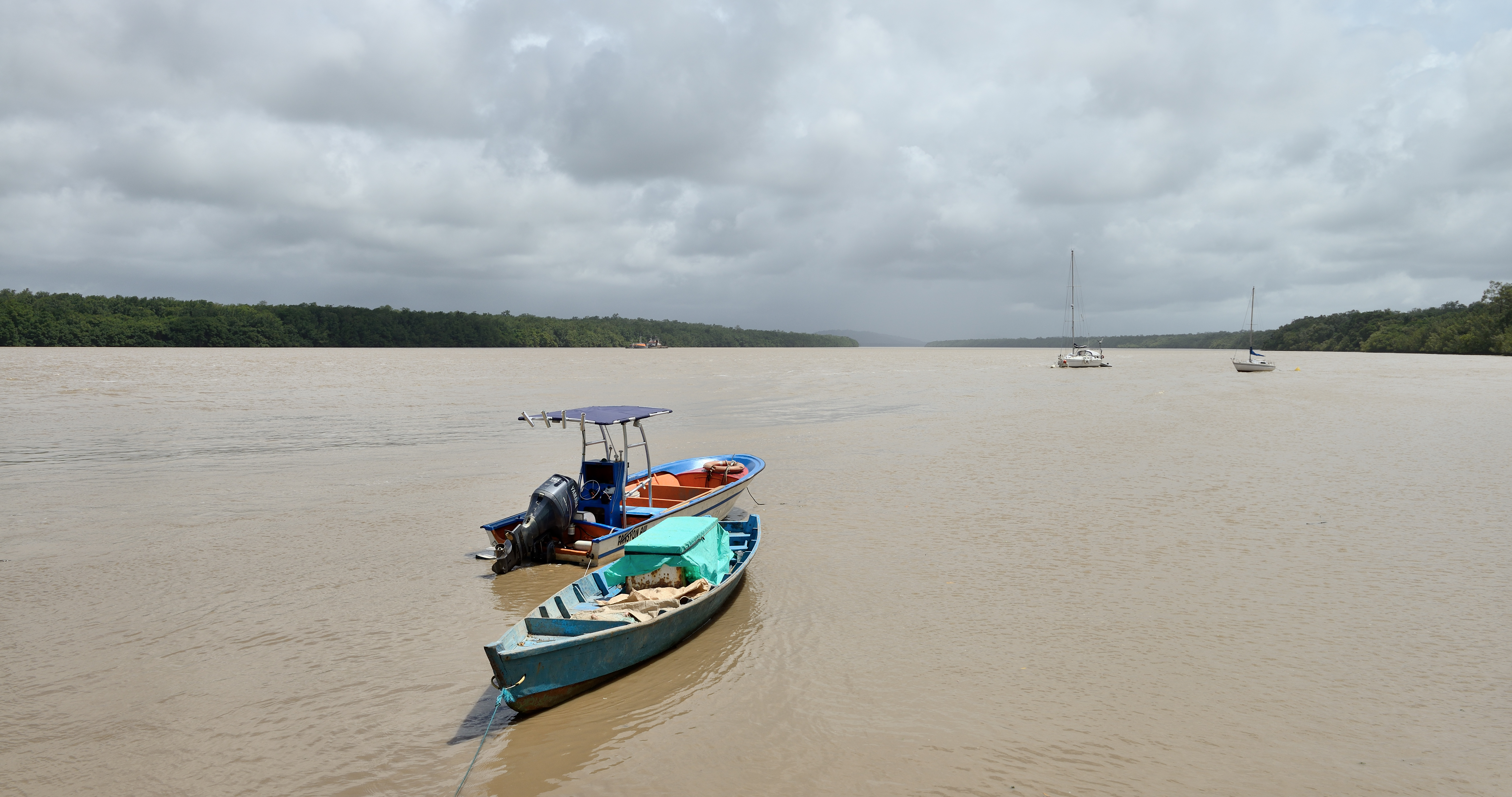 French Guiana, Mahury River as seen from Dégrad des Cannes.